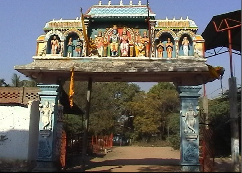 Sri Sadguru Samartha Narayan Aashram Main Gate